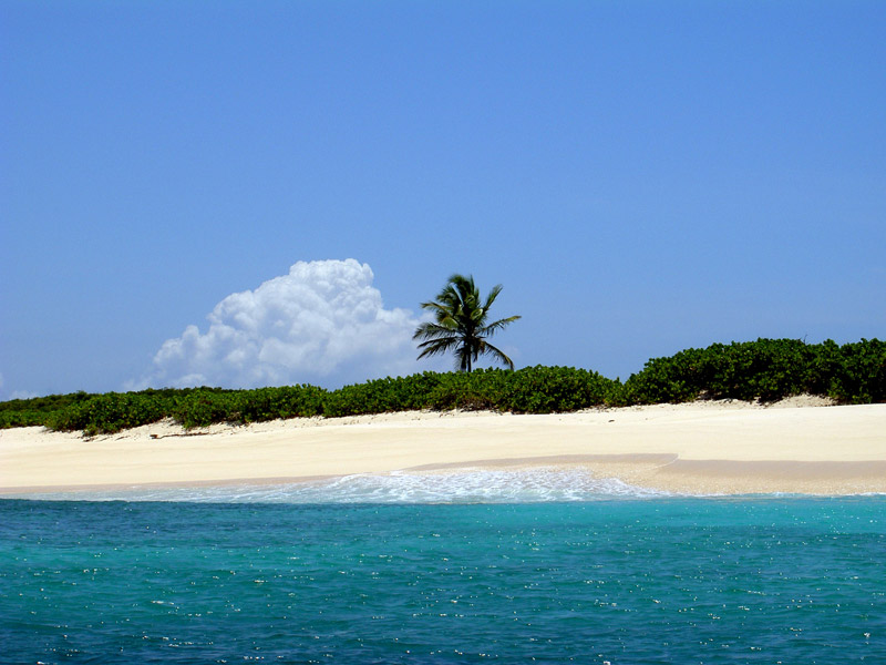 Scrub Island - Scrub Bay Audrey FARA et Florent JEAN